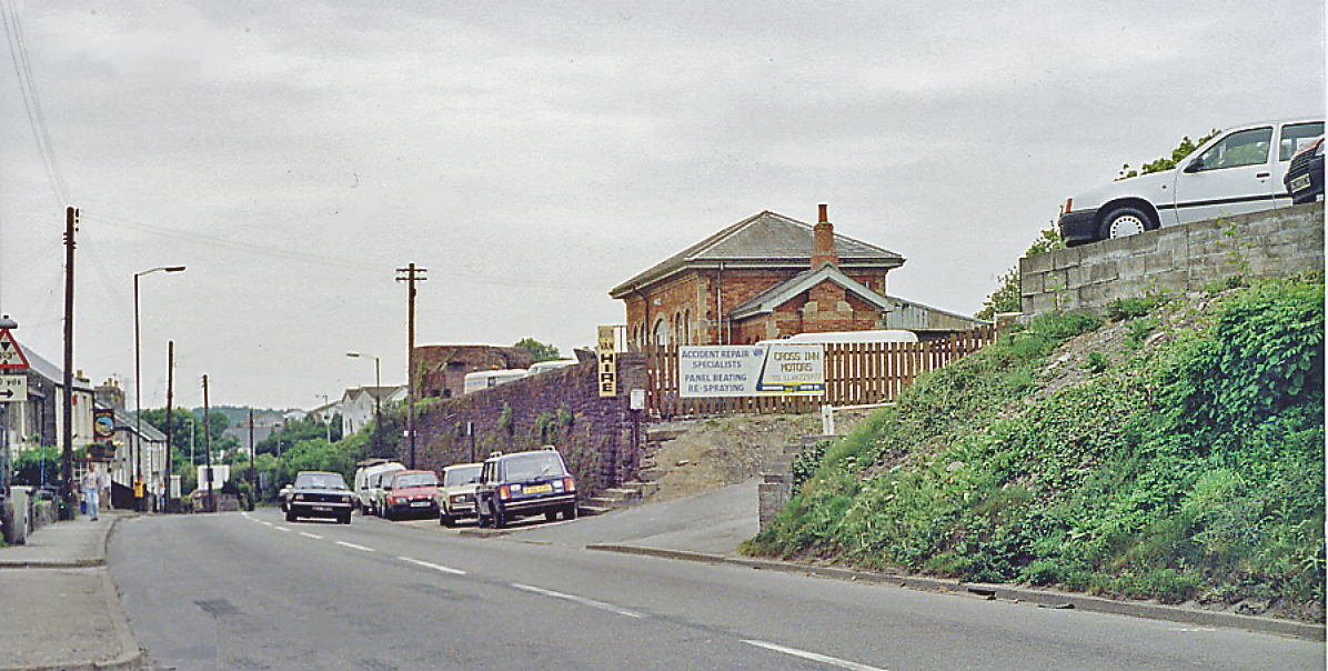 Cross Inn station (remains),1990. View SW, towards Llantrisant: ex-Taff Vale Railway, Pontypridd - Llantrisant branch. The station and line were closed to passengers 31/3/52, goods 9/5/60. By 1990 it was taken over for Car Repairs.